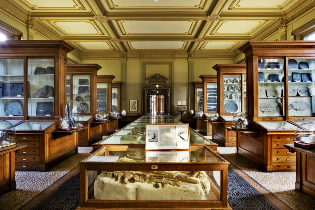 Fossil Room II of Teylers Museum, Haarlem, The Netherlands.